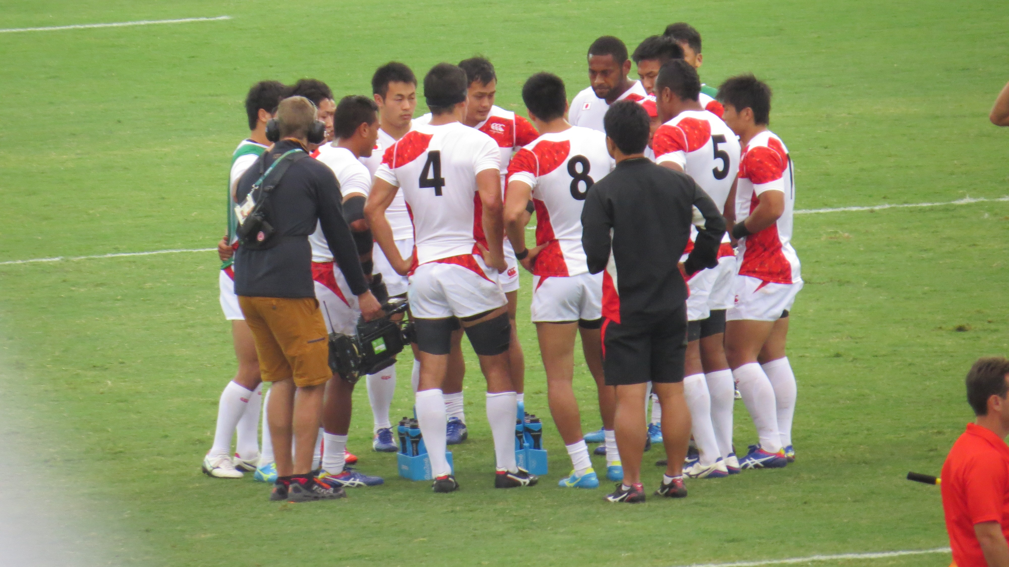 Rio 2016. Rugby 116